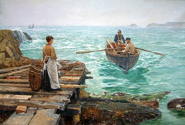 Waiting